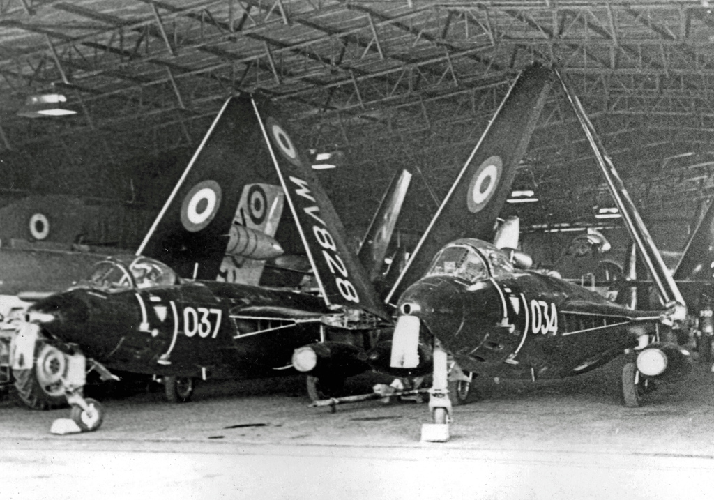 Hawker Seahawks of the Airwork FRU at Bournemouth (Hurn) Airport in 1967